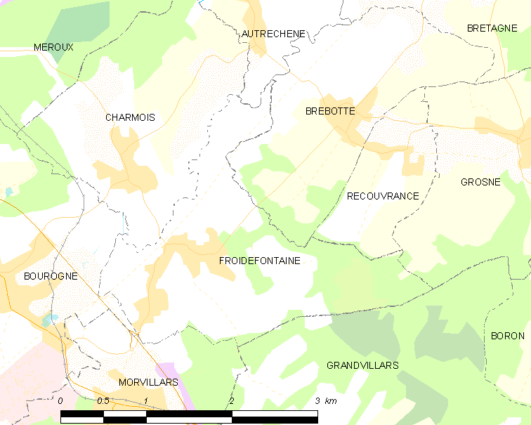 Map of French municipality Froidefontaine